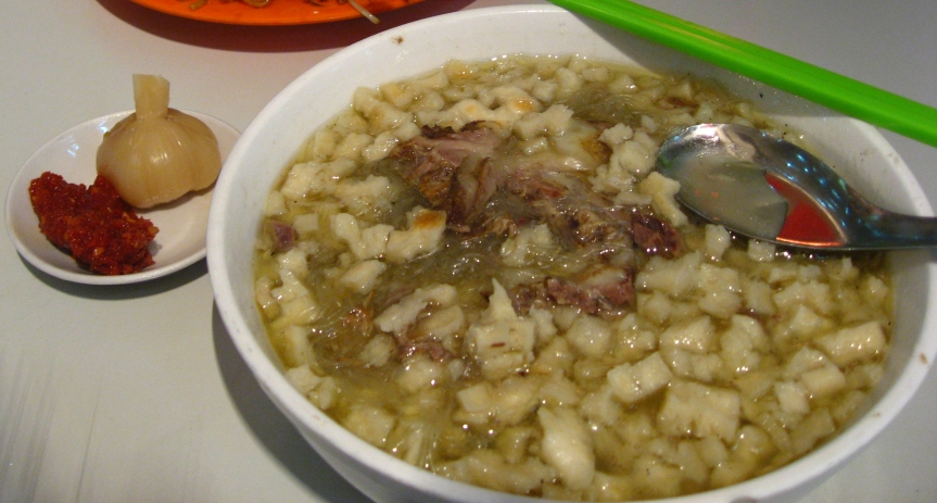 A bowl of paomo served in the cafeteria of Xi'an Jiaotong University.